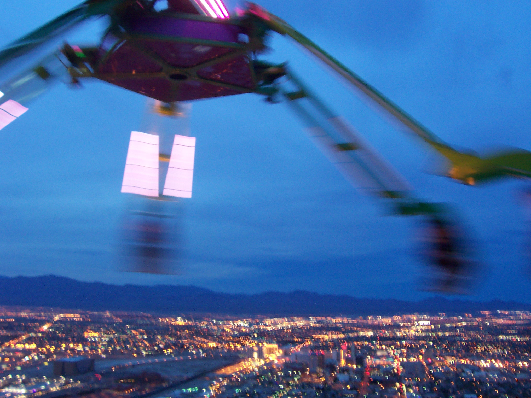 Insanity the Ride in motion atop Stratosphere Las Vegas taken March 27, 2005 by User:Michael180 with Kodak EasyShare CX6330.